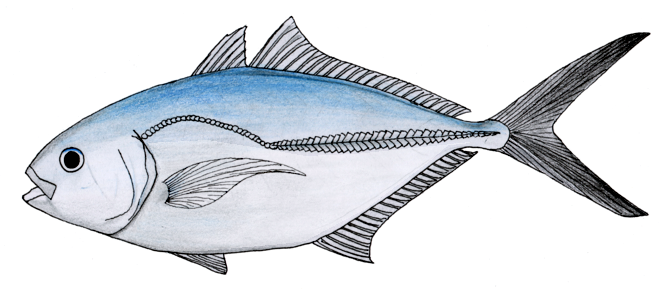 Hand drawn and coloured diagram of the herring scad, Alepes vari. Based on fishbase photograph